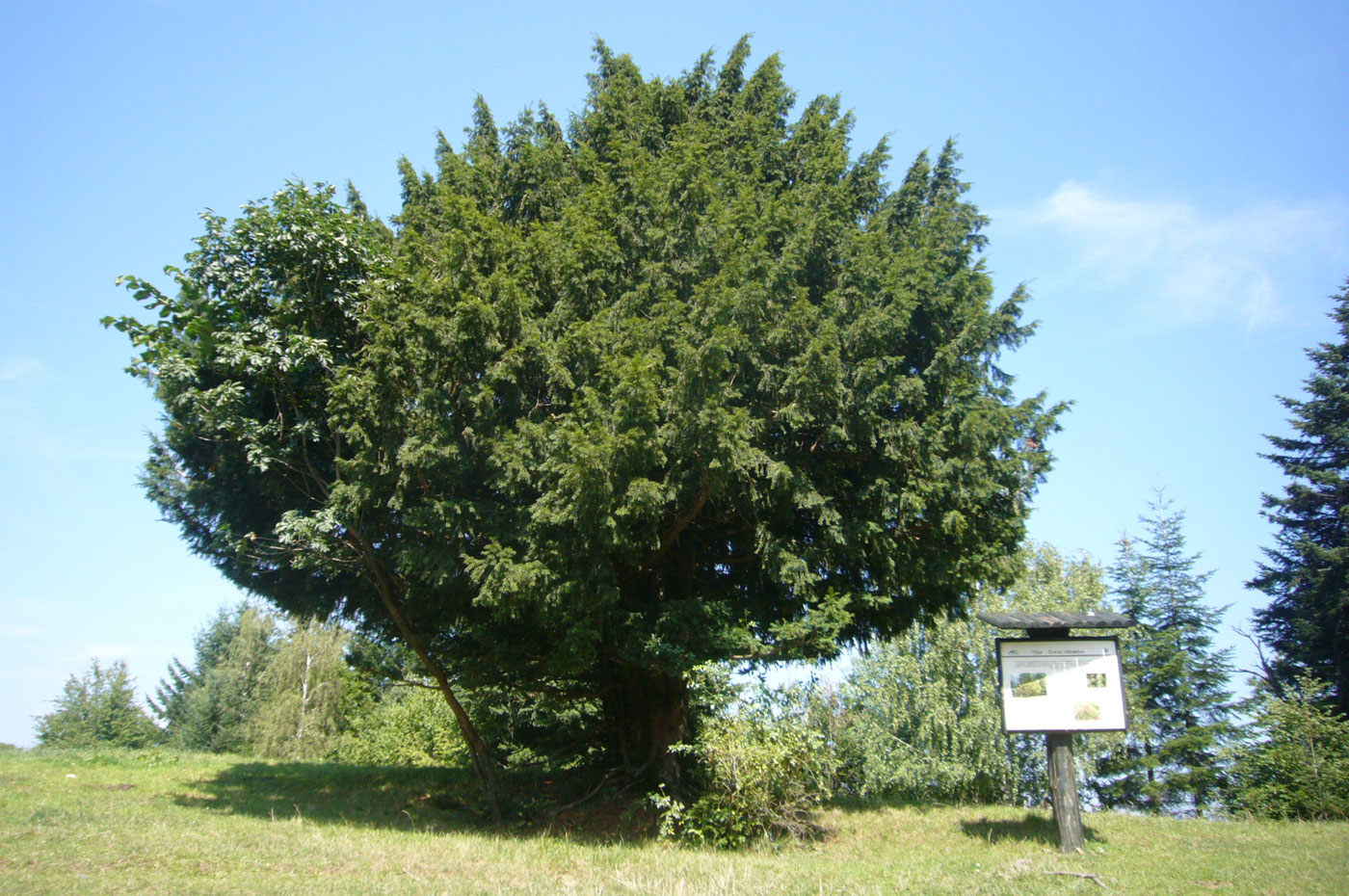 Taxus baccata, Medvednica, Croatia